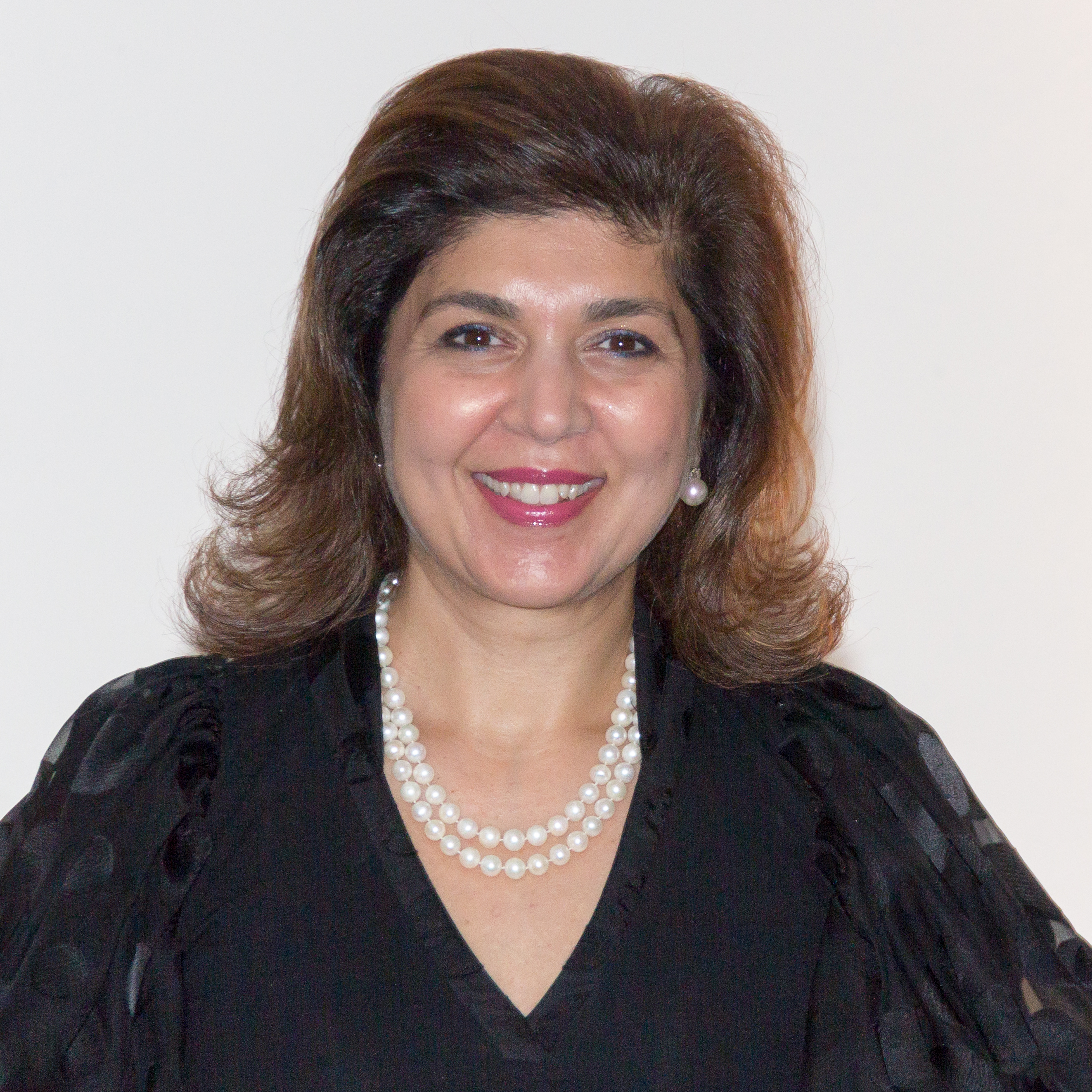 Award ceremony of the European Academy of Sciences and Arts in the city townhall of Cologne Photo: The Hon Farah Pandith, Adjunct Senior Fellow at the Council on Foreign Relations